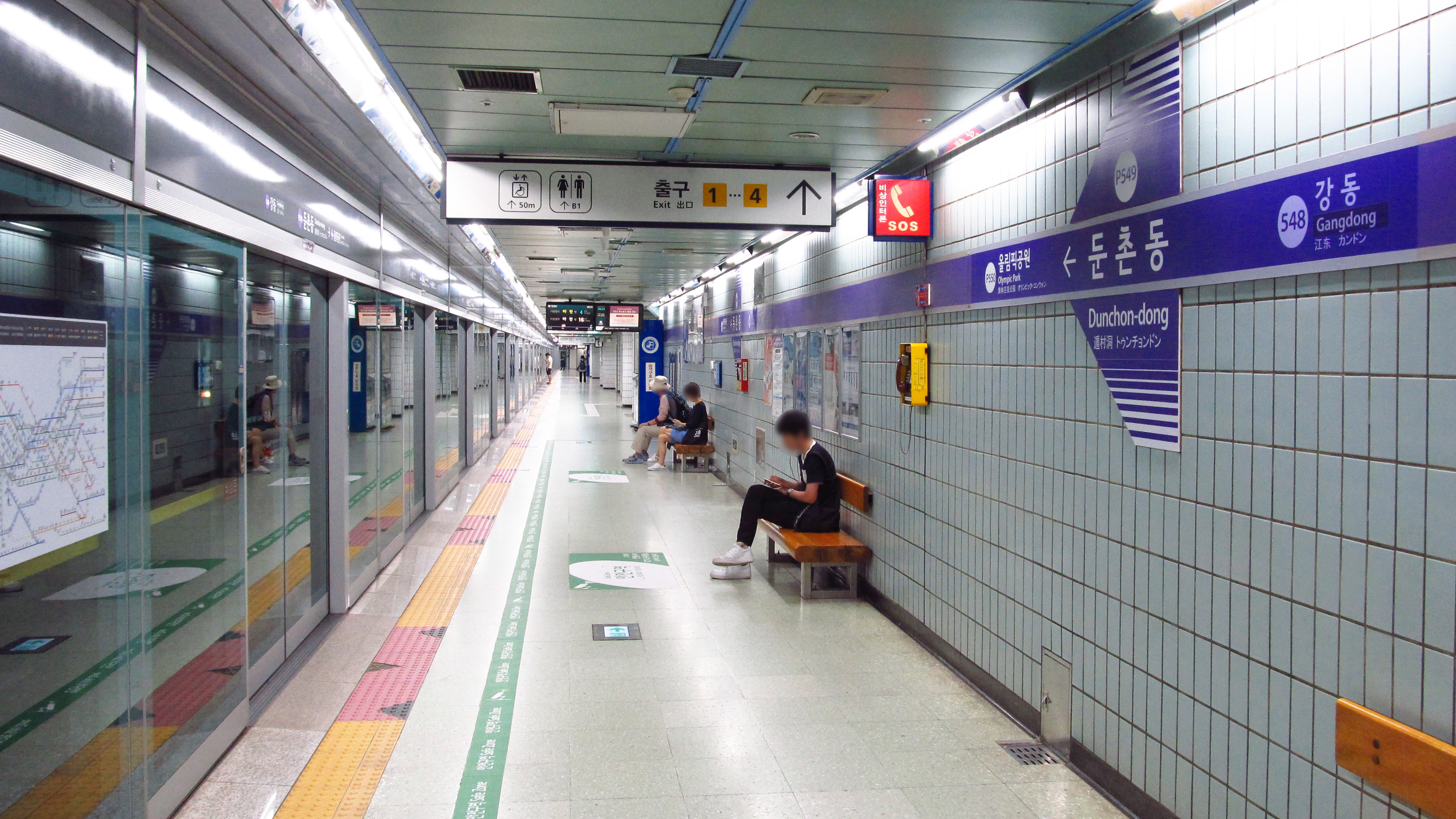 The platform at Dunchon-dong Station on Seoul Subway Line 5 in Gangdong-gu, Seoul, Republic of Korea(South Korea)